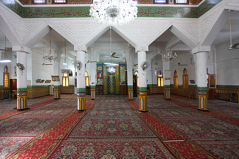 Inside the el-Farshuti Mosque, Sohag, Egypt